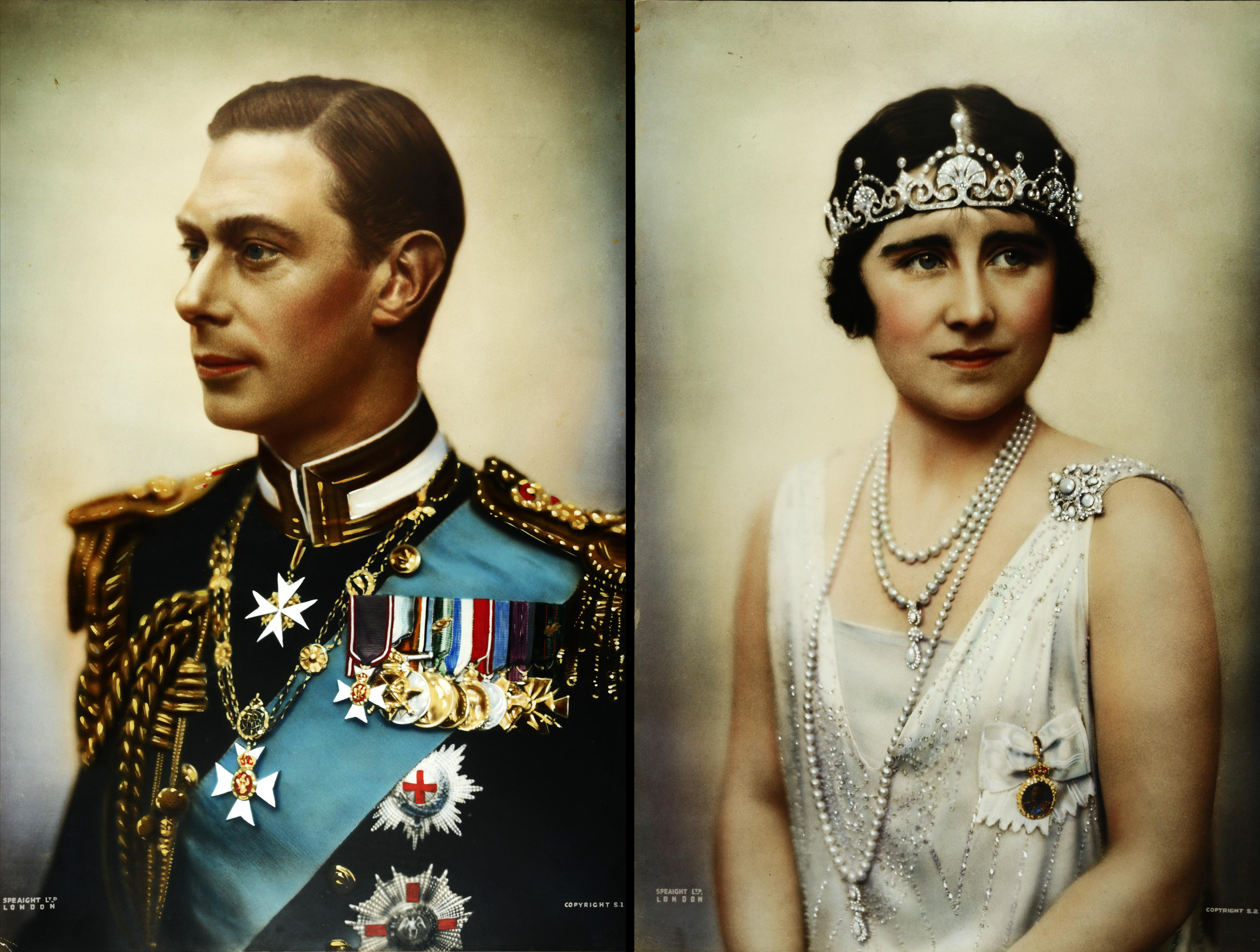 These portraits of the Duke and Duchess of York were created in 1925, two years before they toured New Zealand together. In February 1927 the Duke and Duchess of York arrived in Auckland aboard the 'HMS Renown' for a month-long tour of New Zealand. At the time the Duke, Prince Albert, was second in line to the British throne after his brother Prince Edward. Edward abdicated after his accession in 1936 however. Prince Albert then ascended to the throne, and adopted the regnal name George VI. The Duke and Duchess of York were the parents of the present queen, Elizabeth II, who was less than a year old at the time of the tour. During the 1927 tour the Duke and Duchess travelled extensively throughout the country, although after the Duke was obliged to continue the tour alone after Duchess fell ill with tonsillitis in Nelson. These portraits come from the ‘WHAT’ series of records held at Archives NZ, which contains records of uncertain provenance. Series reference: AGGM 25027 WHAT These records are being presented by Archives New Zealand across our Twitter, Flickr and Youtube pages to coincide with the Royal Visit of 2014. Throughout the tour we will be showcasing records relating to previous Royal tours, dating back to early as 1869. For further updates on historic Royal tours follow us on Twitter Material supplied by Archives New Zealand